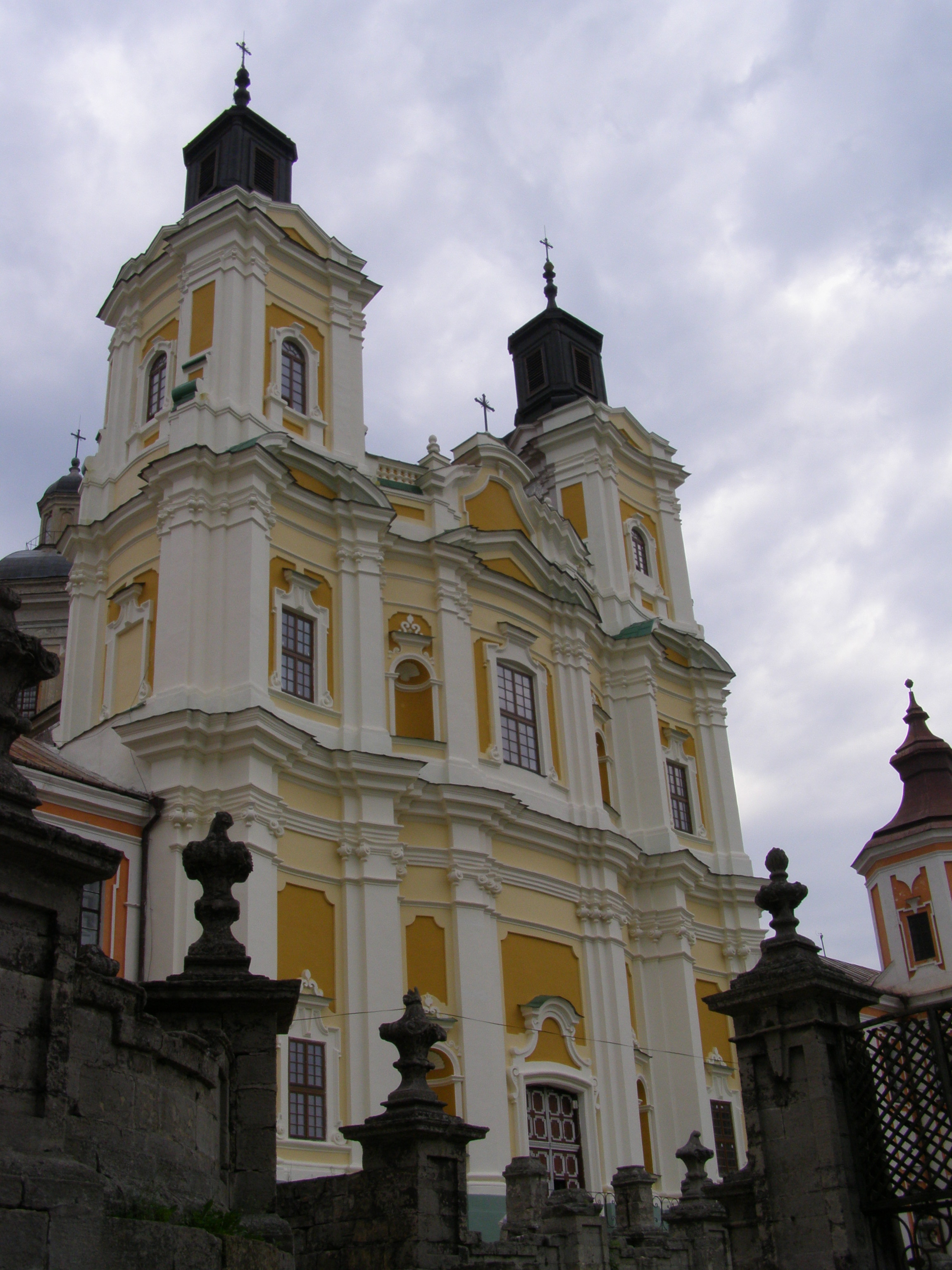 Kremenets, Ukrainian orthodox church